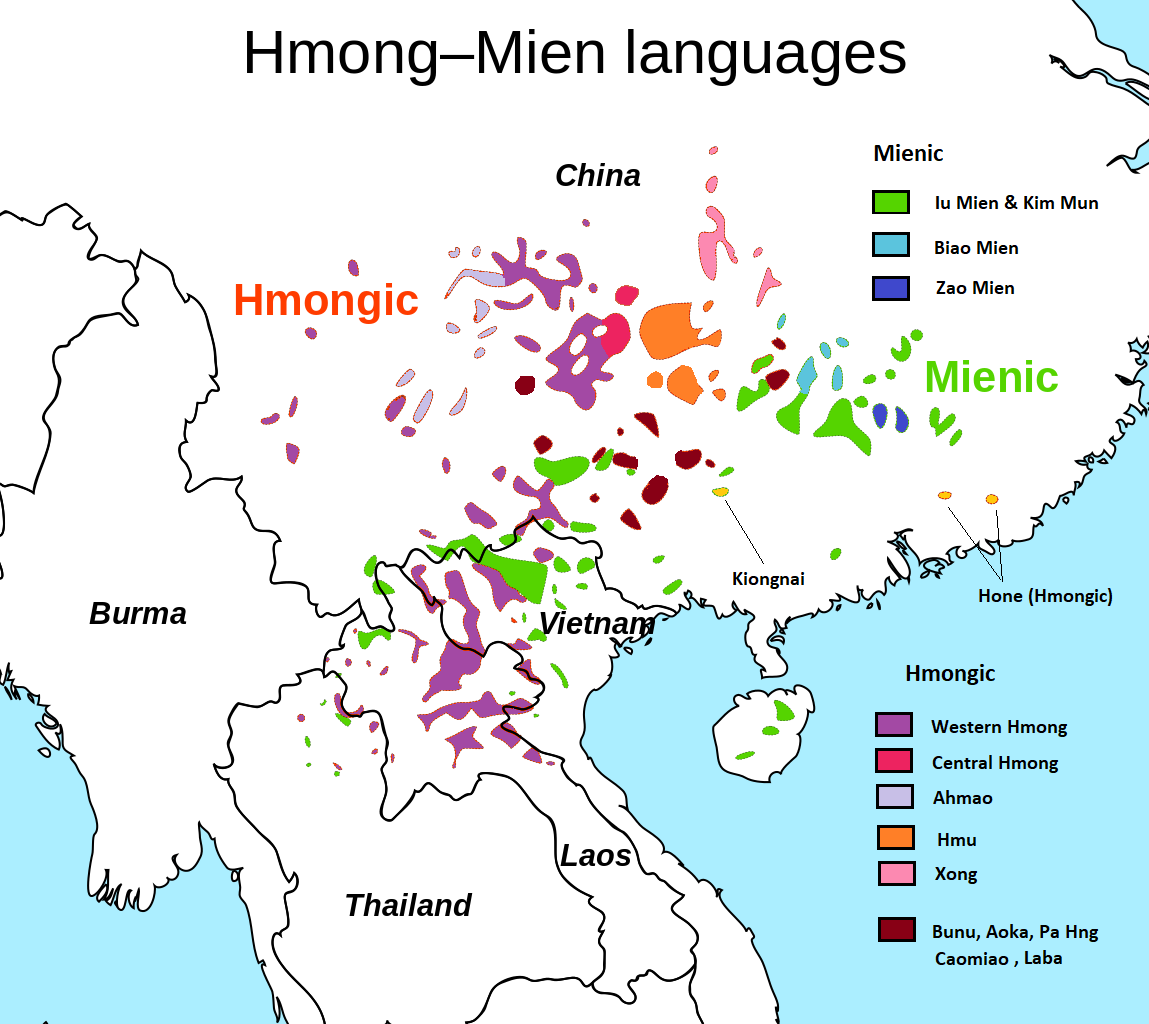 Update on Hmong Mien map based on Muturzikin and Rutgers data & maps